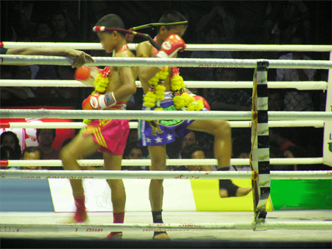 Young Muay Thai fighters in Bangkok